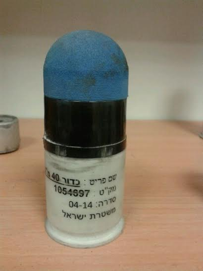 Sponge grenade model 632 Produced by defense technology